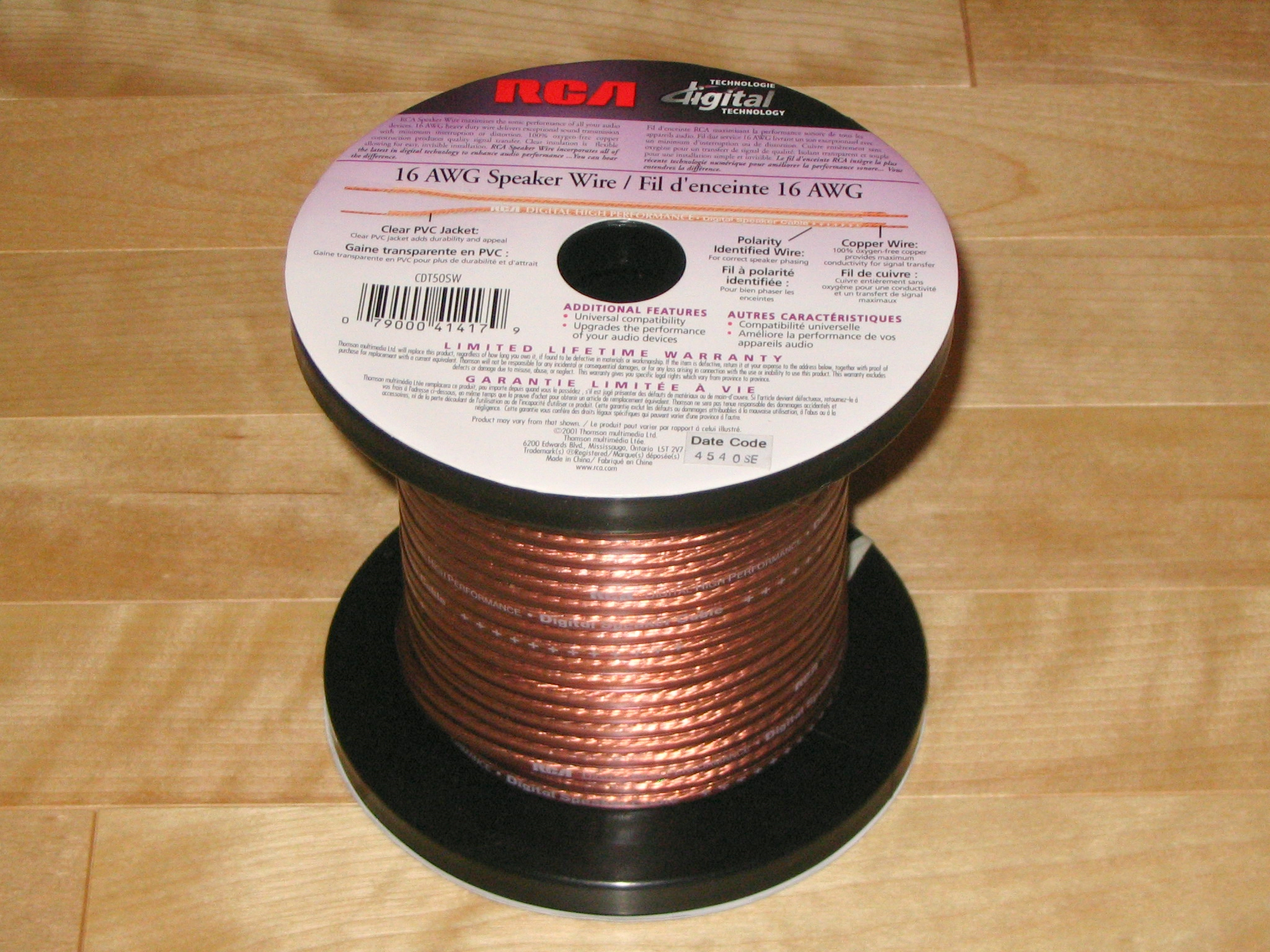 A roll of 16 AWG speak wire.